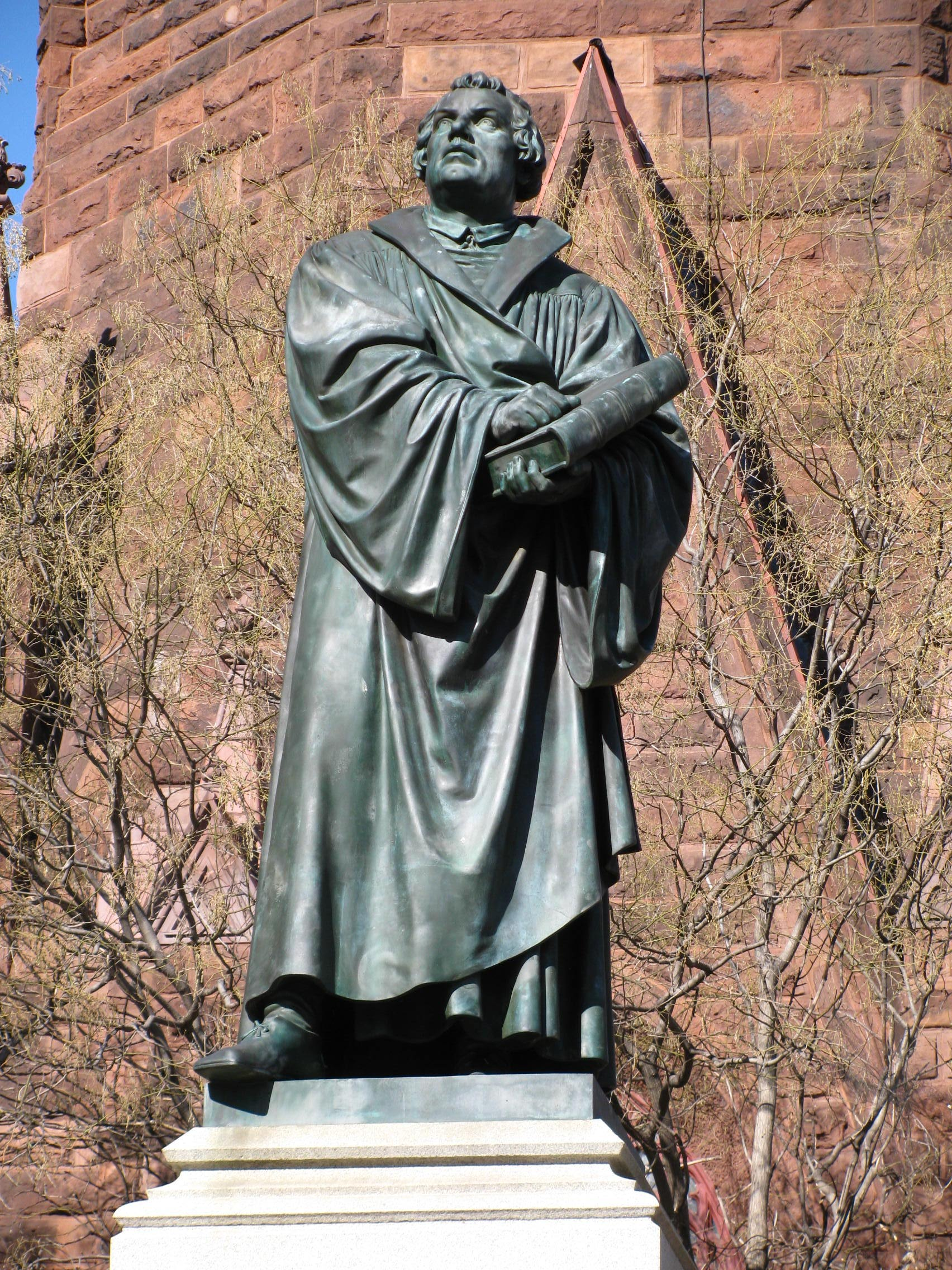 replica of Ernst Friedrich August Rietschel's Lutherdenkmal (Luther Monument) in Worms, Germany, was erected on the site in 1884.